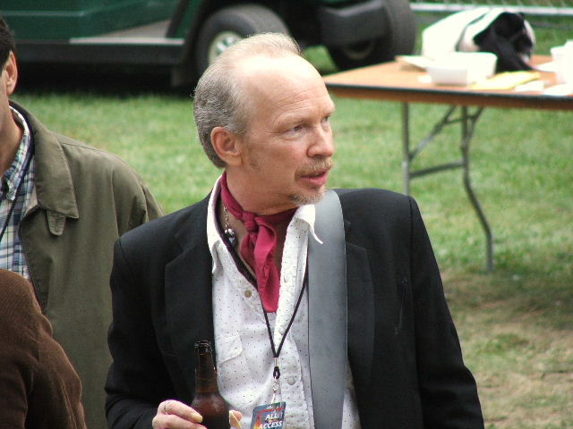 Hardly Strictly Bluegrass Festival 2005. Golden Gate Park - San Francisco, CA. Photo by Ron Baker.